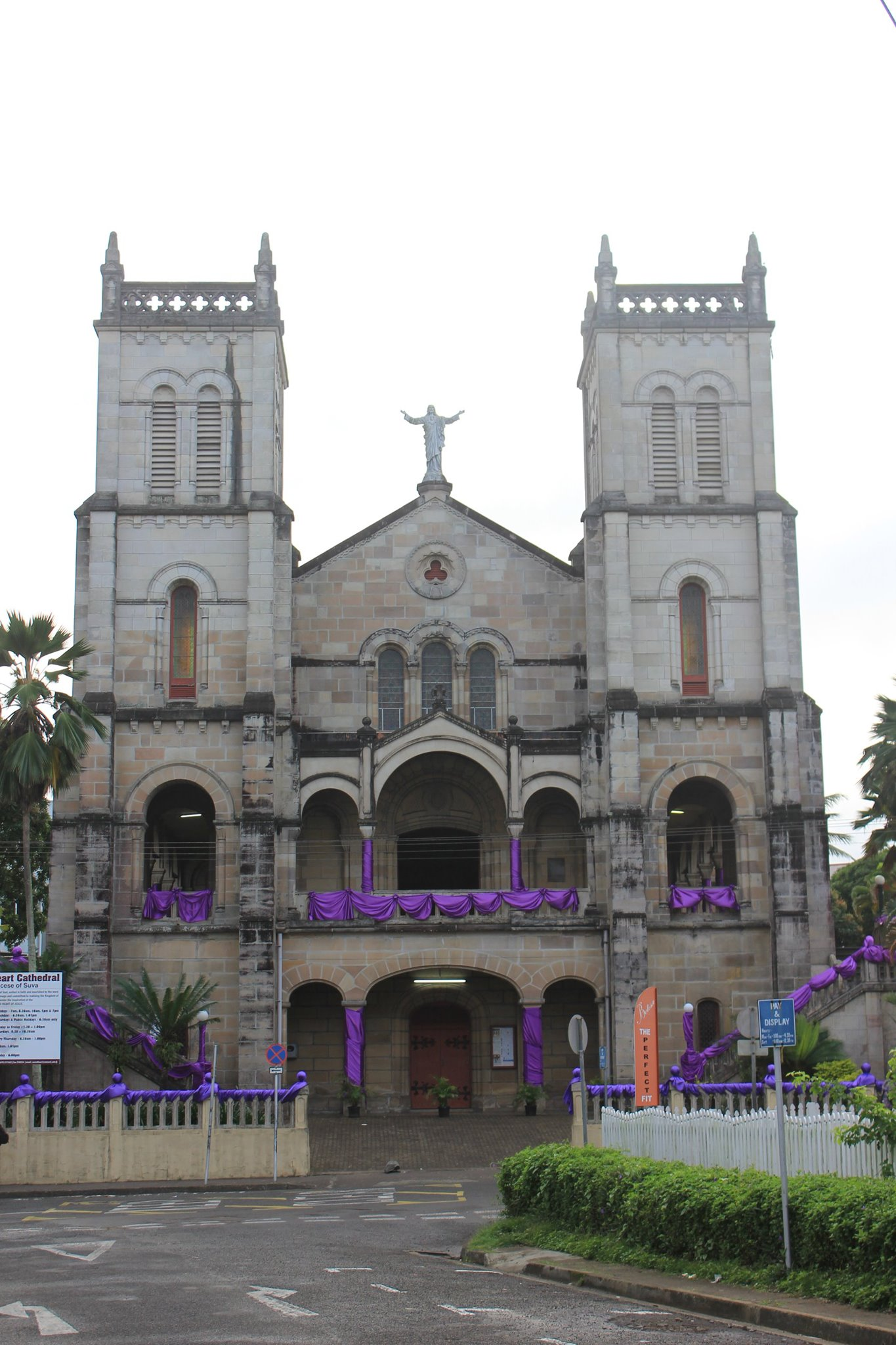 Sacred Heart Cathedral, Suva Fiji after the funeral of archbishop Petero Mataca